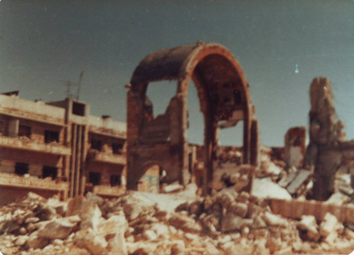 Photo of destruction in Hama following the Hama Massacre in 1982.